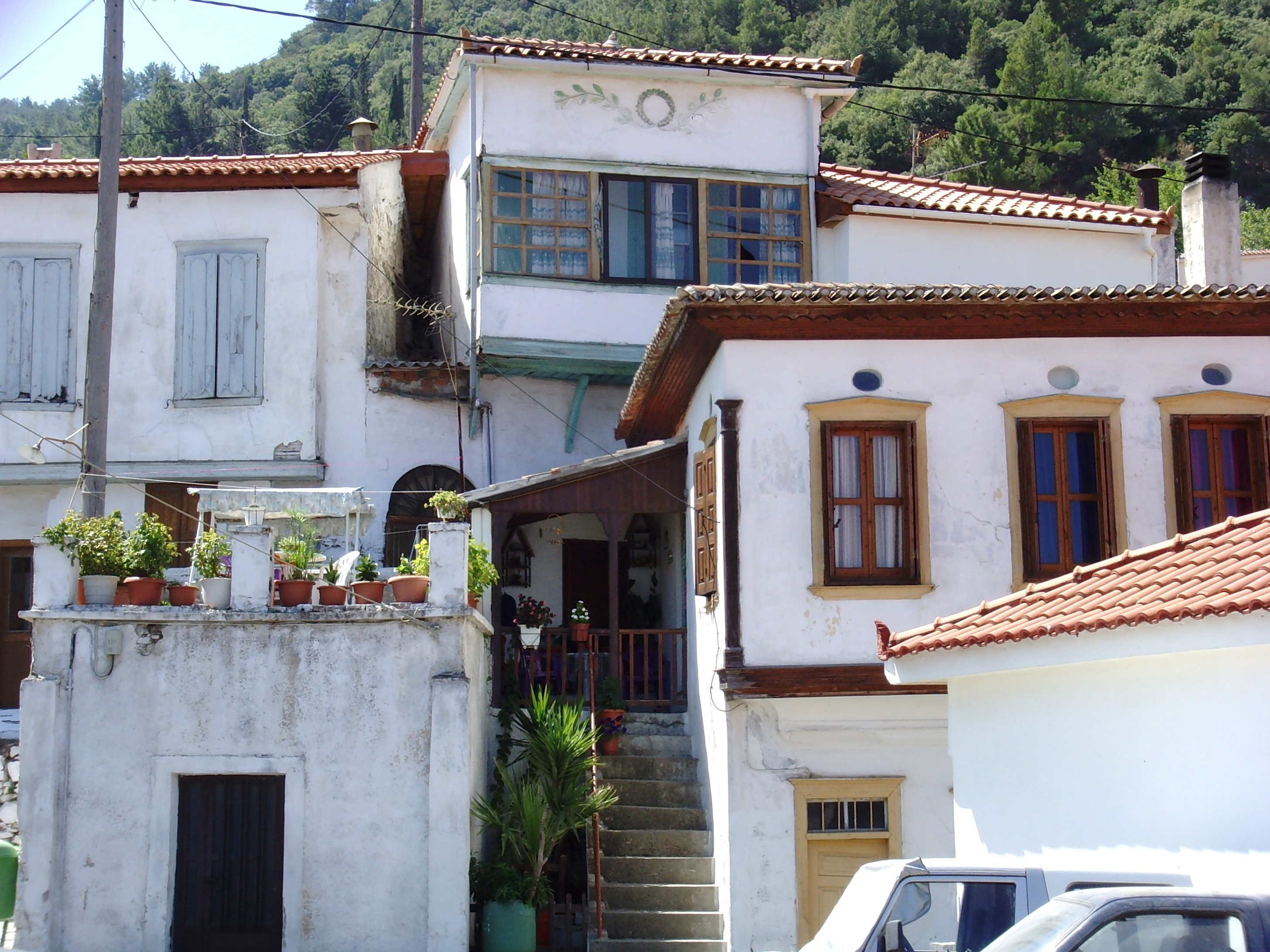 Typical old architecture in the village of Vourliotes, Samos, Greece